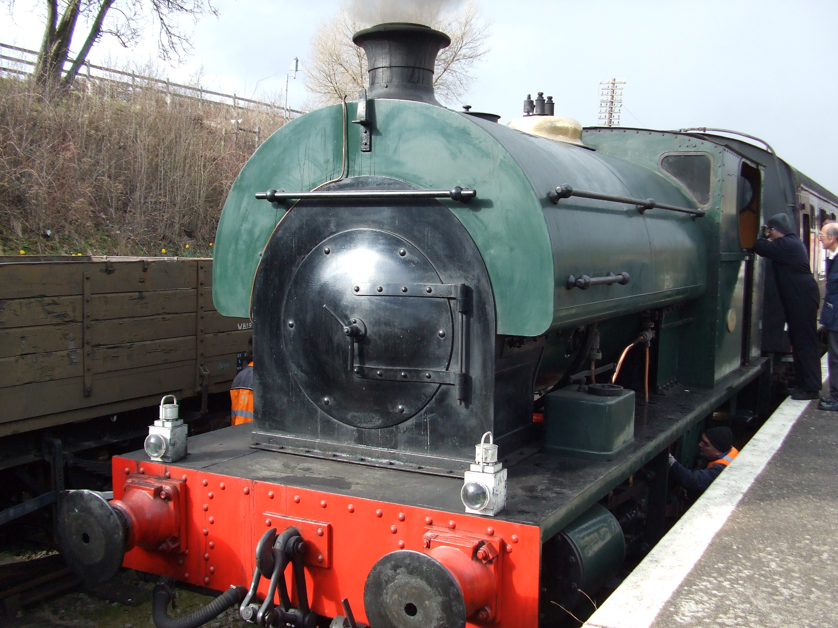 Peckett and Sons 2000 at Rushcliffe Halt